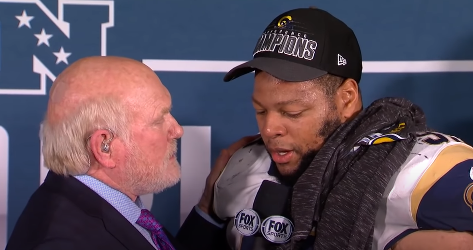 In 2019